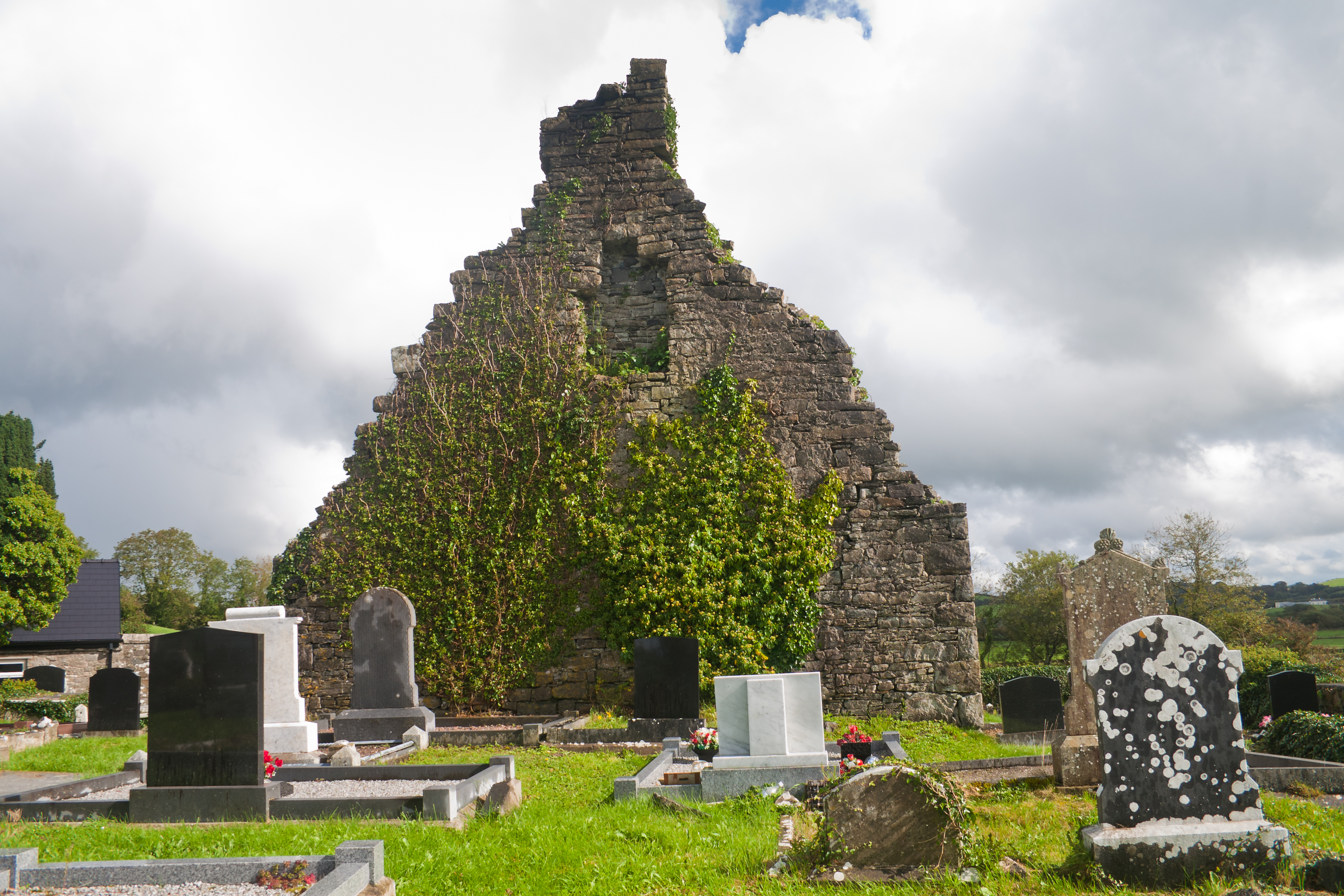 West gable of the old church which was in use until 1795 when a new church was erected in Ballintra. This church is located at the site of an early Christian monastery. St. Ernan, a disciple of St. Colmcille, was abbot of Drumhome in the 7th century.